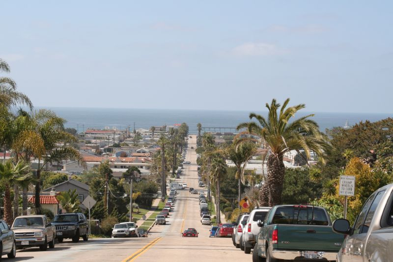 Pacific Beach, San Diego